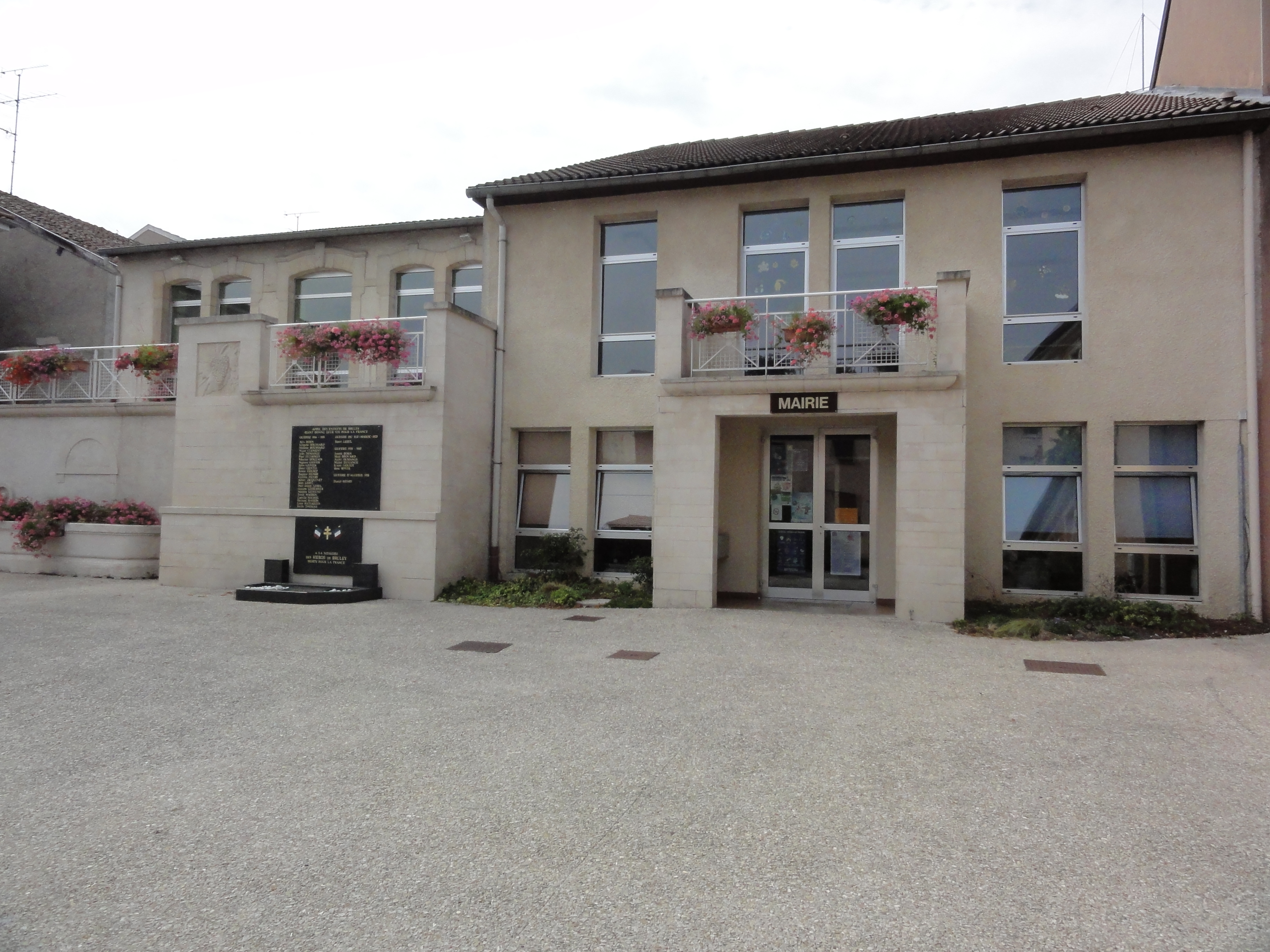 Bruley (Meurthe-et-M.) mairie et monument aux morts